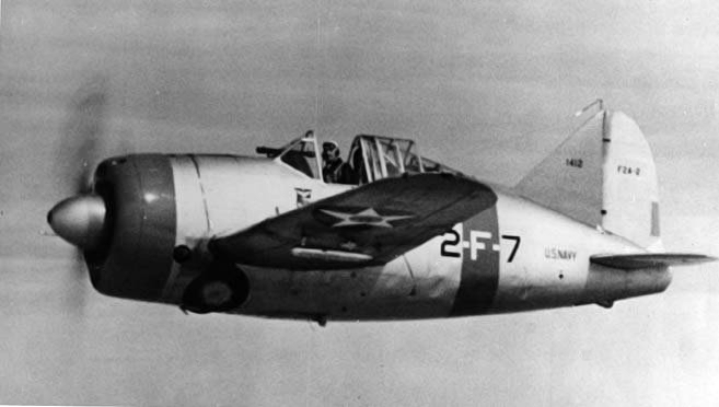 A U.S. Navy Brewster F2A-2 (BuNo 1412) of fighter squadron VF-2 in flight, 1940/41. This aircraft crashed after a midair collision near Grahams Dairy, Miami, Florida (USA), on 6 February 1943.